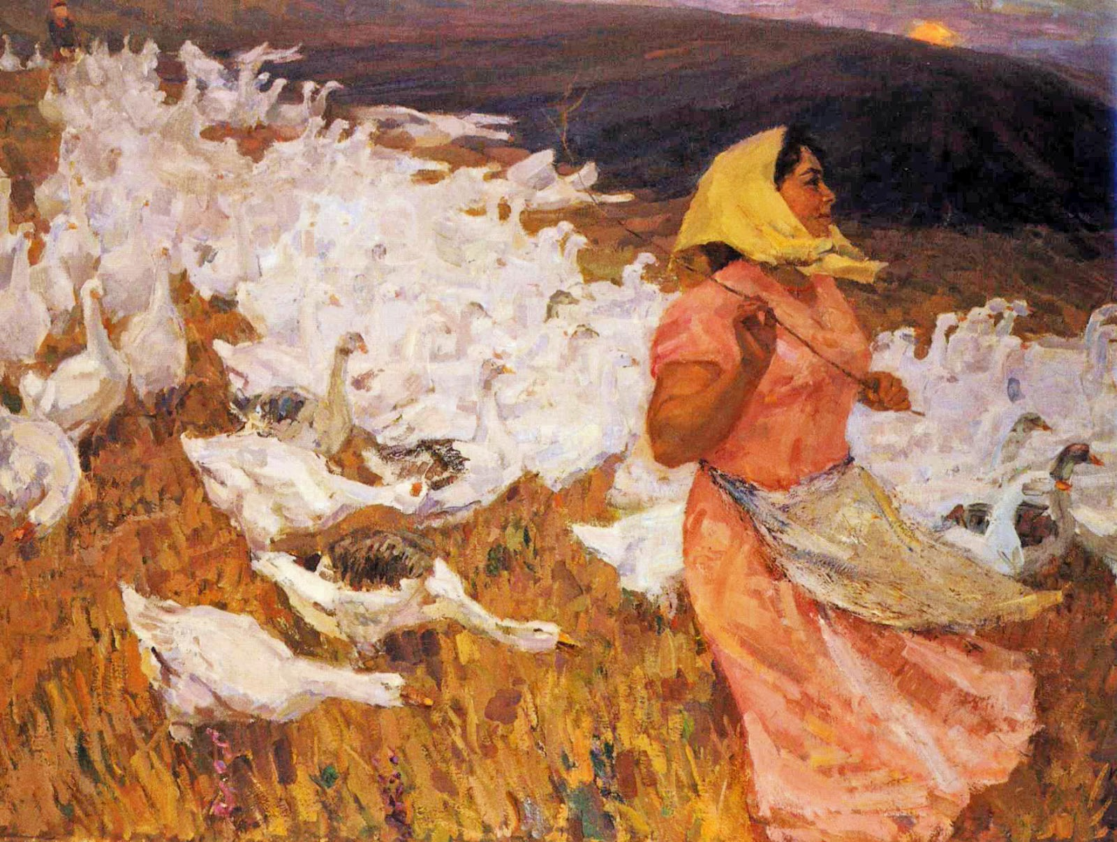 Galya of the Birds